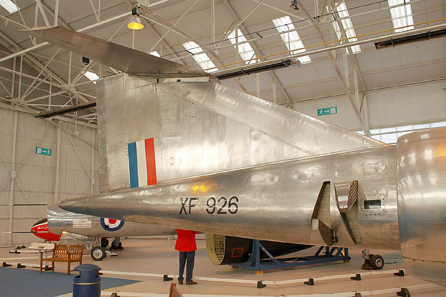 Author - Steve Lane. Taken at RAF Museum Cosford on 1st March 2007. URL